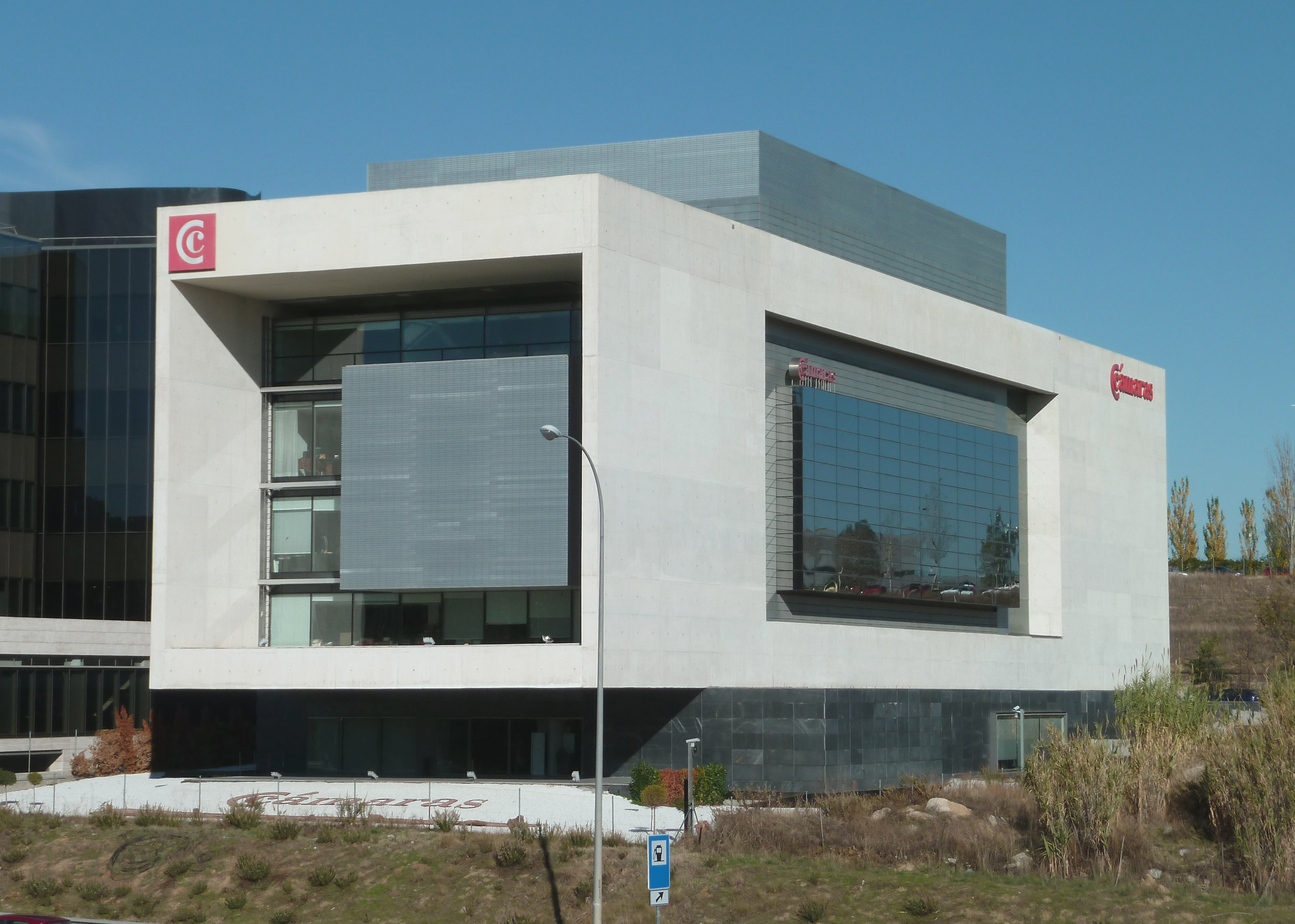 View of the Spanish High Council of Chambers of Commerce building, in Madrid.